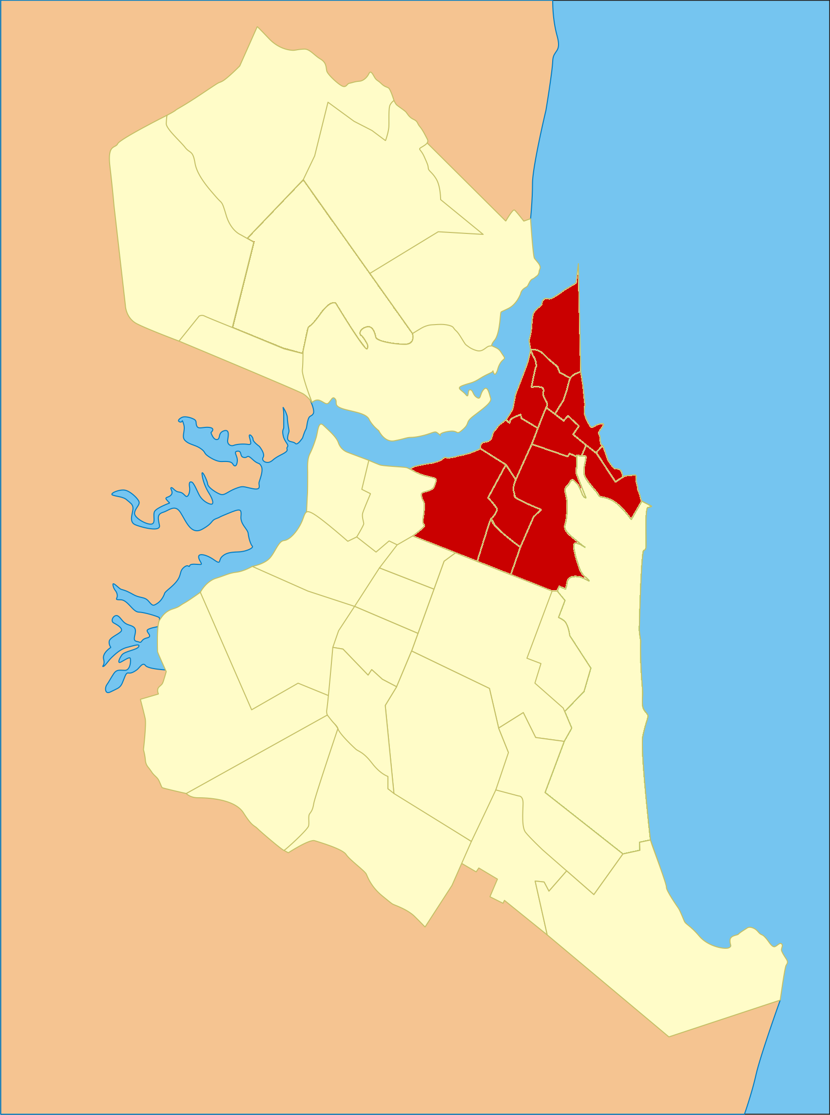 Location map of East Zone in Natal (Rio Grande do Norte), Brasil.